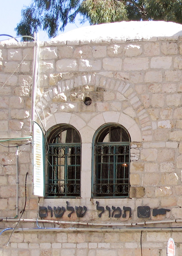 Jerusalem, Yoel Moshe Salomon street, Tmol Shilshom cafe sign, Jerusalem, Israel